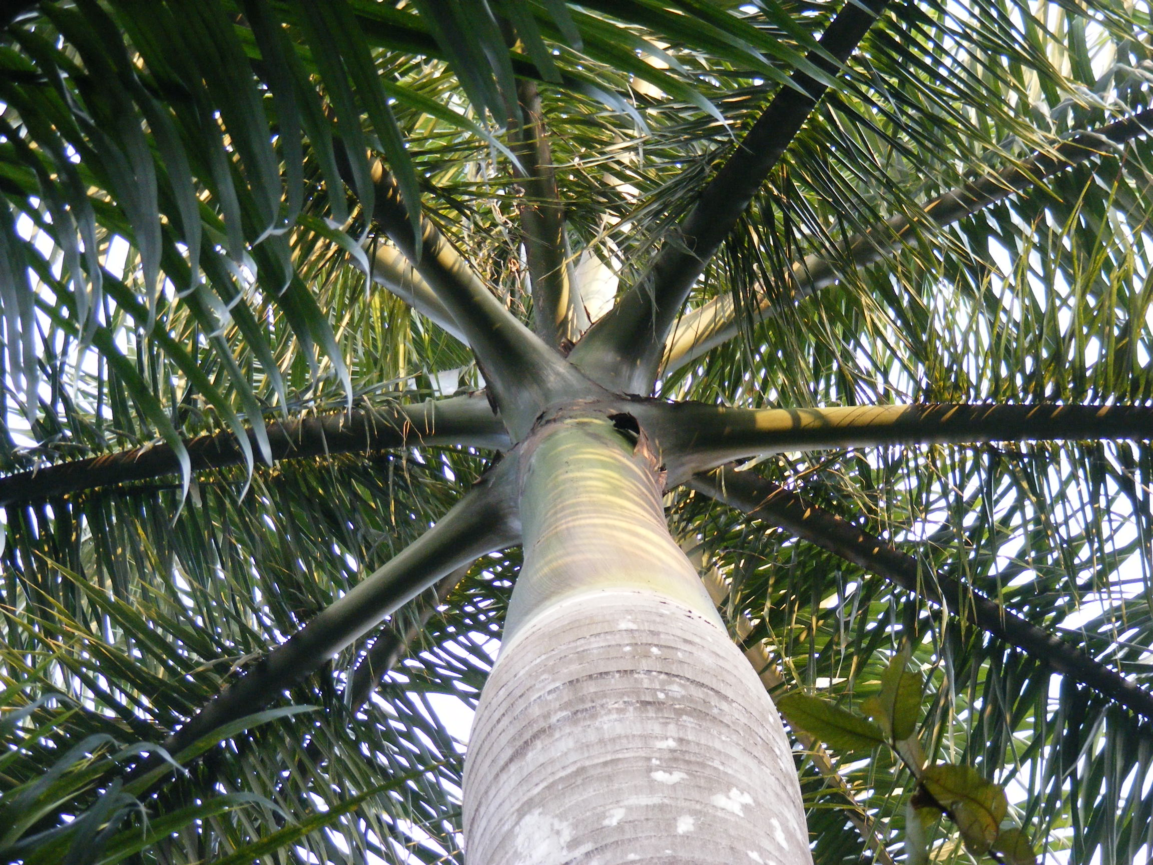 Crownshaft of Roystonea Regia